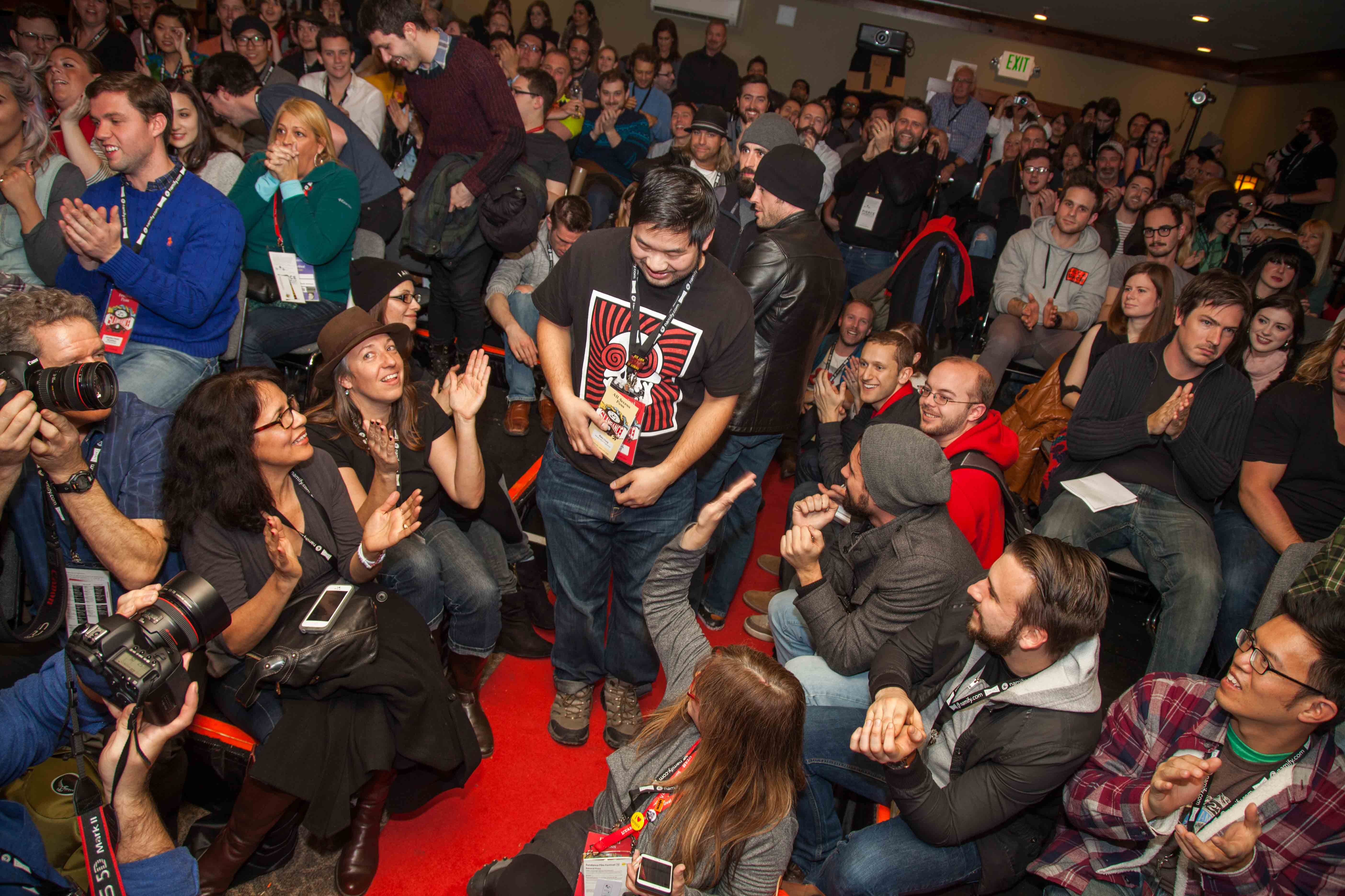 The final audience gathering at the 2015 Slamdance Film Festival